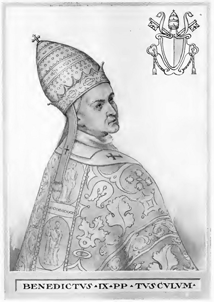 This illustration is from The Lives and Times of the Popes by Chevalier Artaud de Montor, New York: The Catholic Publication Society of America, 1911. It was originally published in 1842.